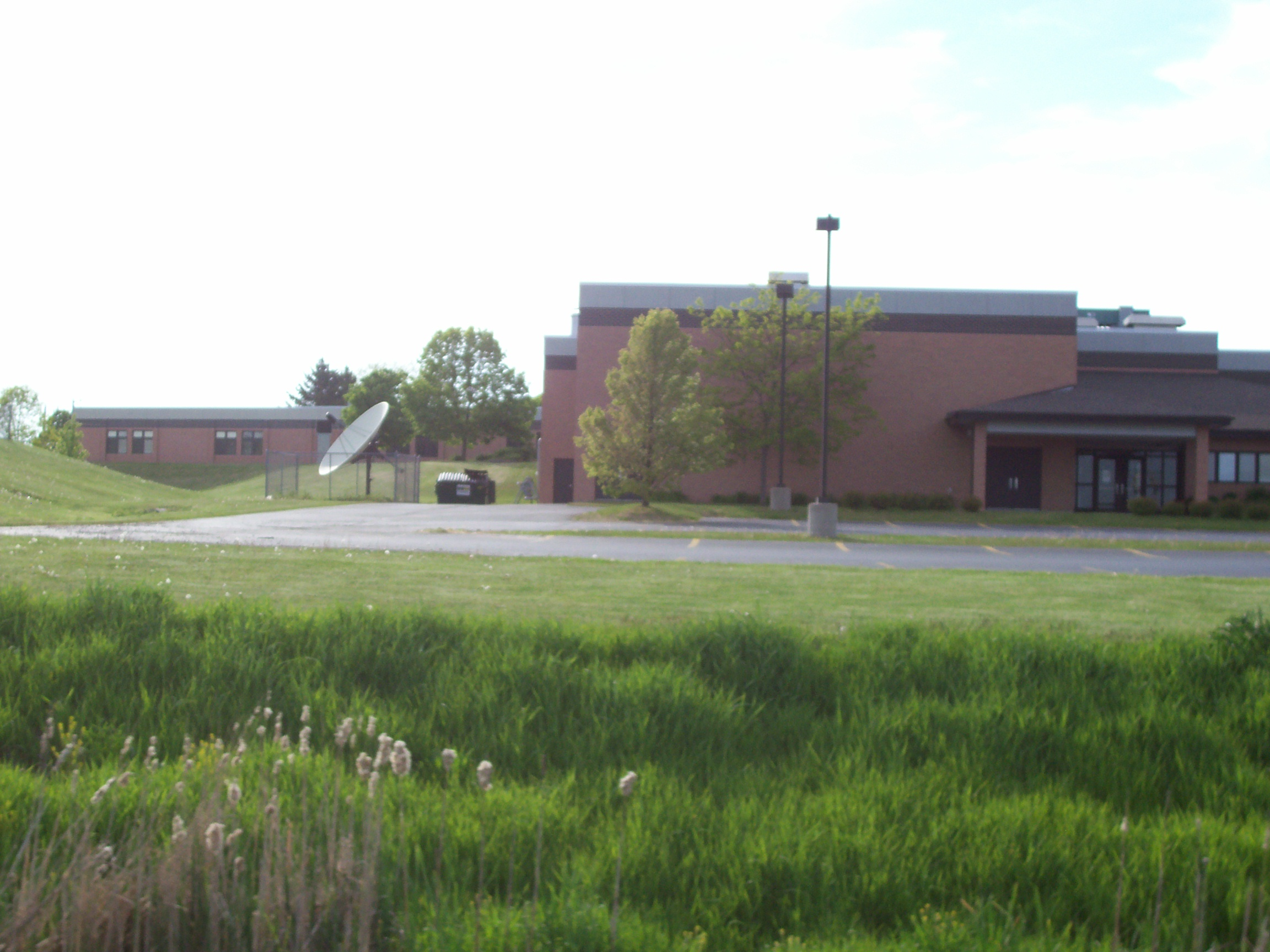 Looking west at the Marshall, Dane County, Wisconsin high school while traveling on Wisconsin Highway 73.